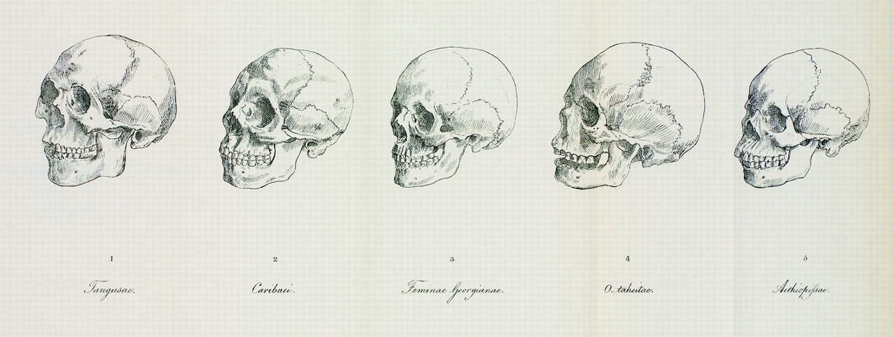 Five skulls labelled Tungusae, Caribaei, Feminae Georgianae, O-taheitae, Aethiopissae, presumably(? serving as specimens for Blumenbach's Mongolian, American, Caucasian, Malayan and Aethiopian races.